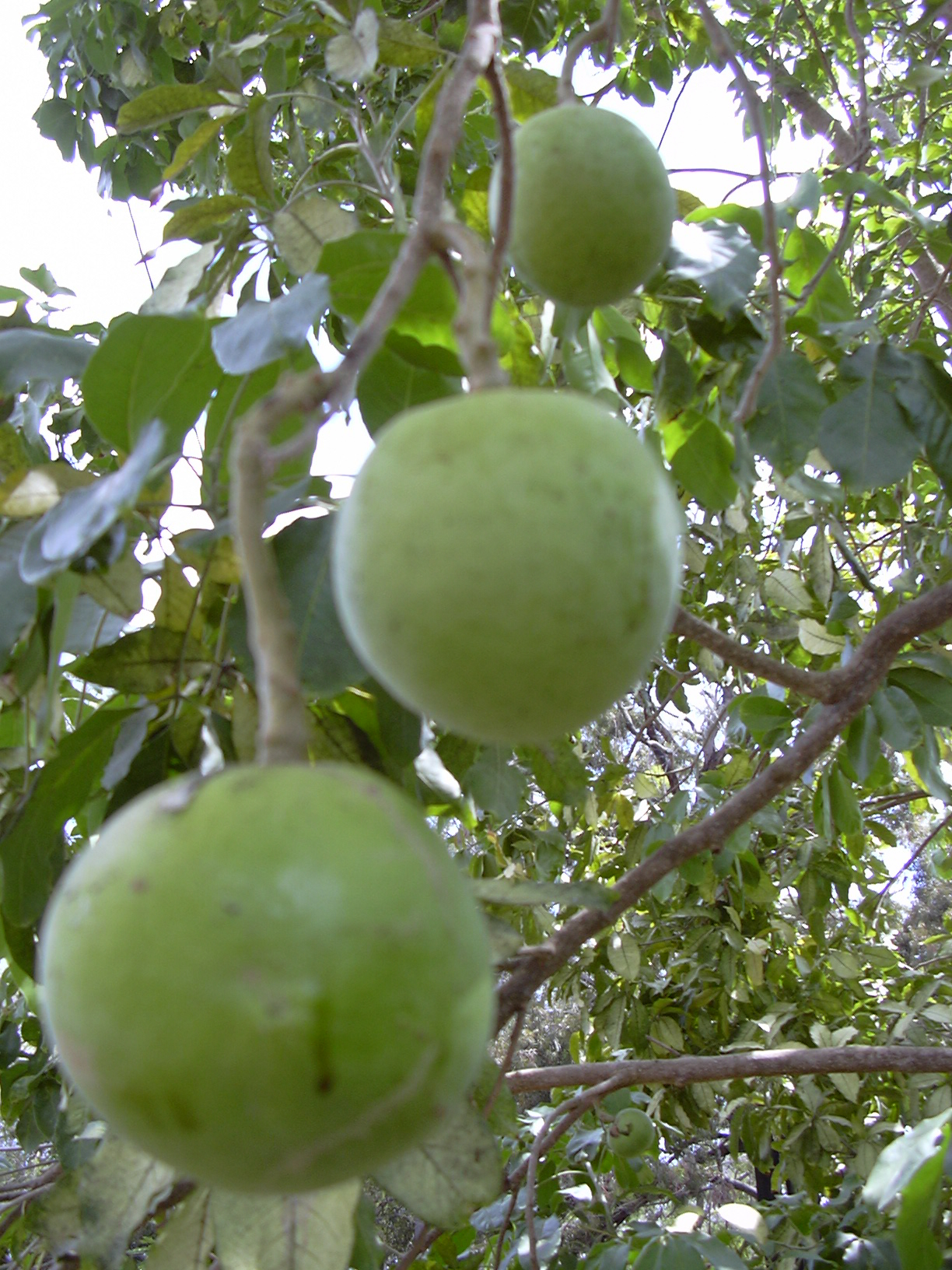 Casimiroa edulis (fruit). Location: Maui, Ulupalakua